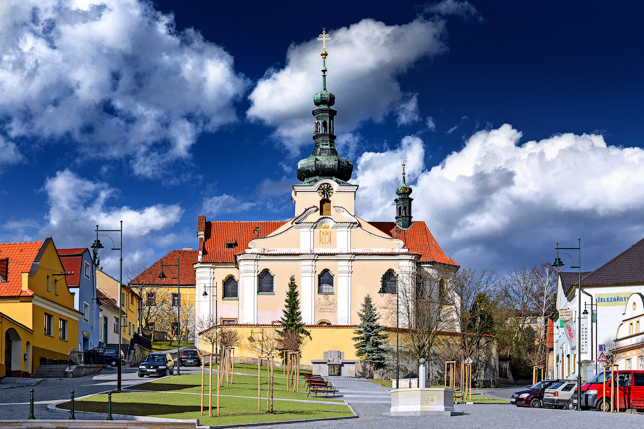 Mnichovice town. Main square with the church.